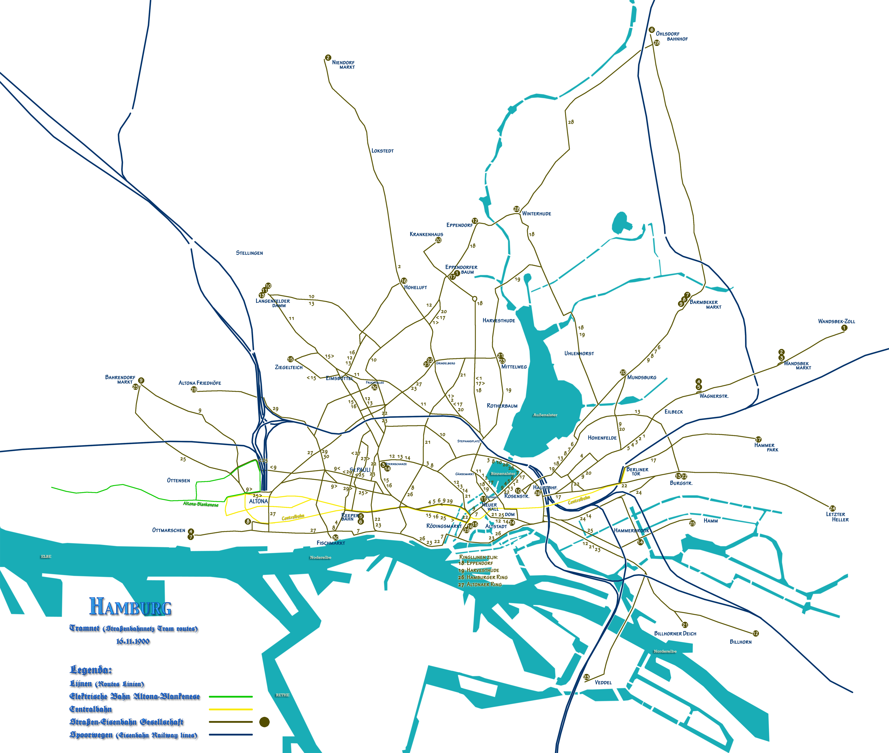 Tram network Hamburg, Germany, 1900